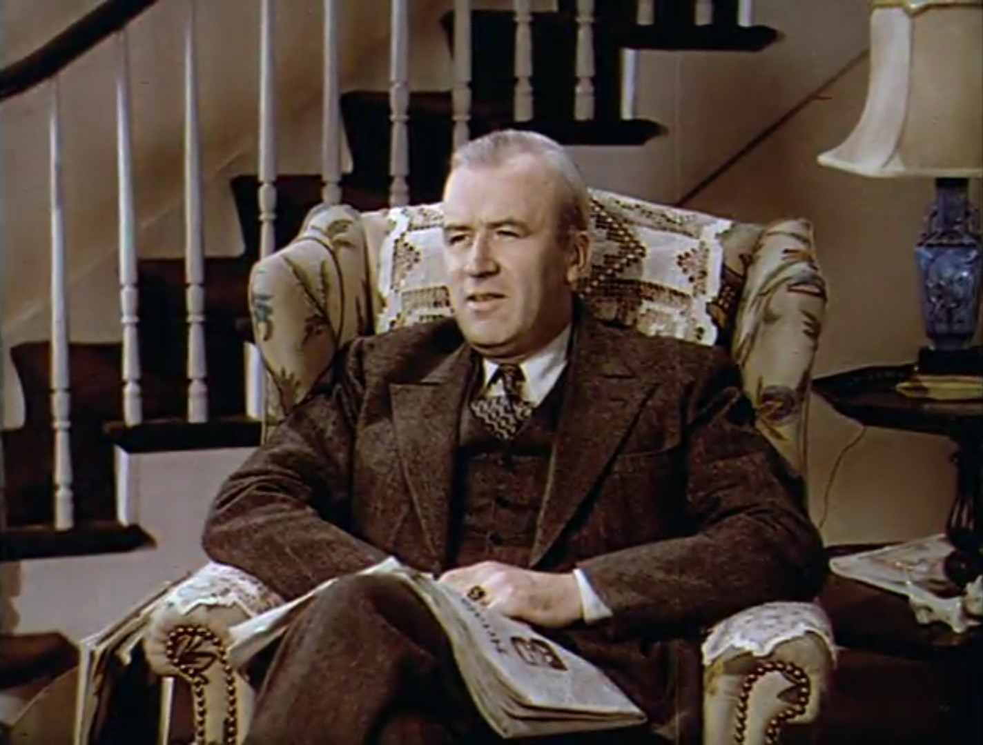 Scene from The Middleton Family at the New York World's Fair. claims this video as public domain, so I boldly believe the copyright has expired.